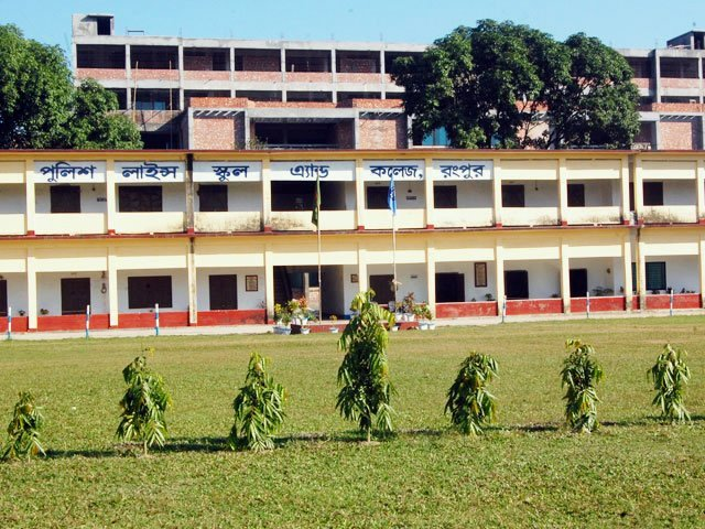 The front side of the academic building of PLSCR